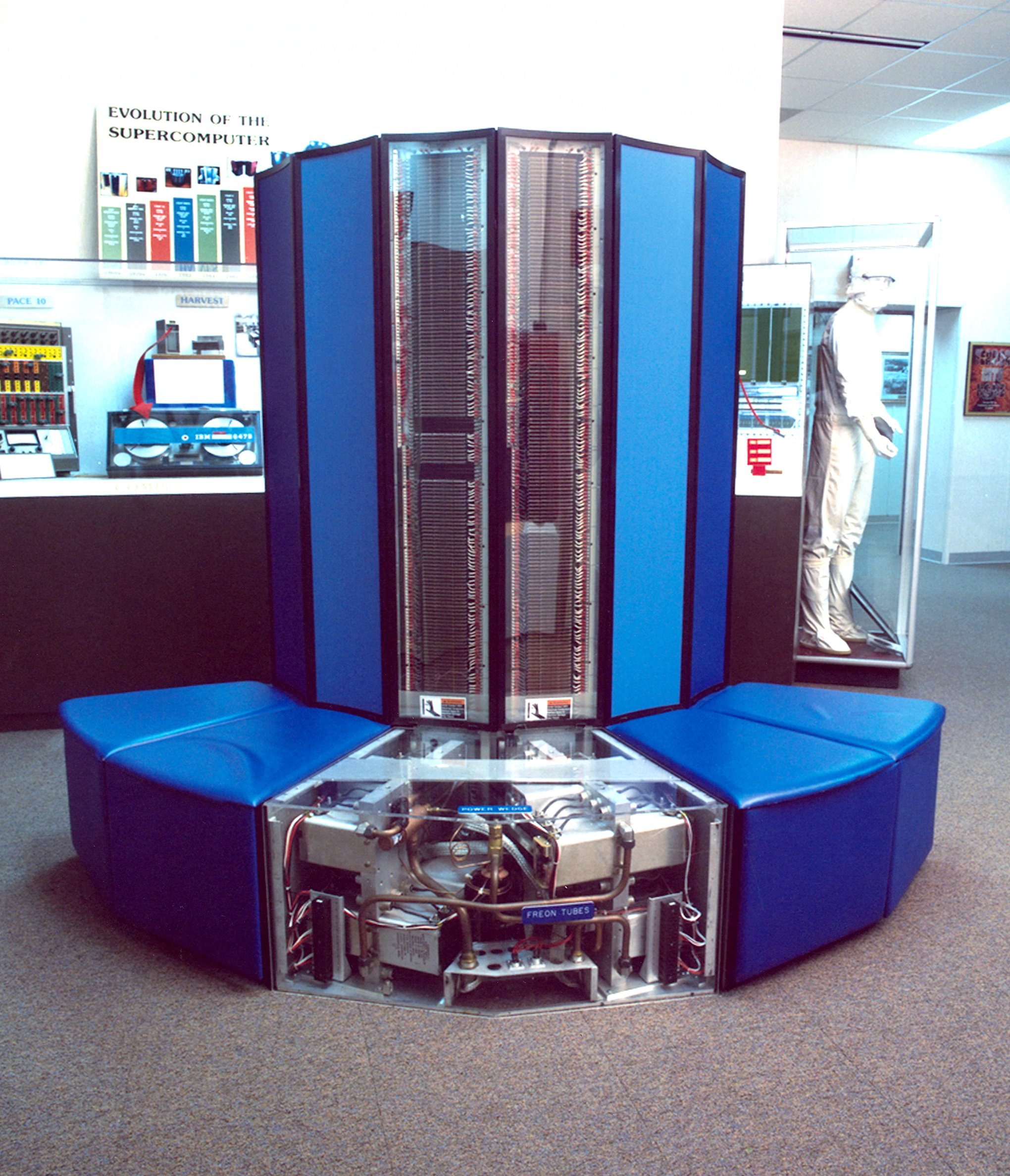 Cray X-MP/24 (serial no. 115) used by NSA